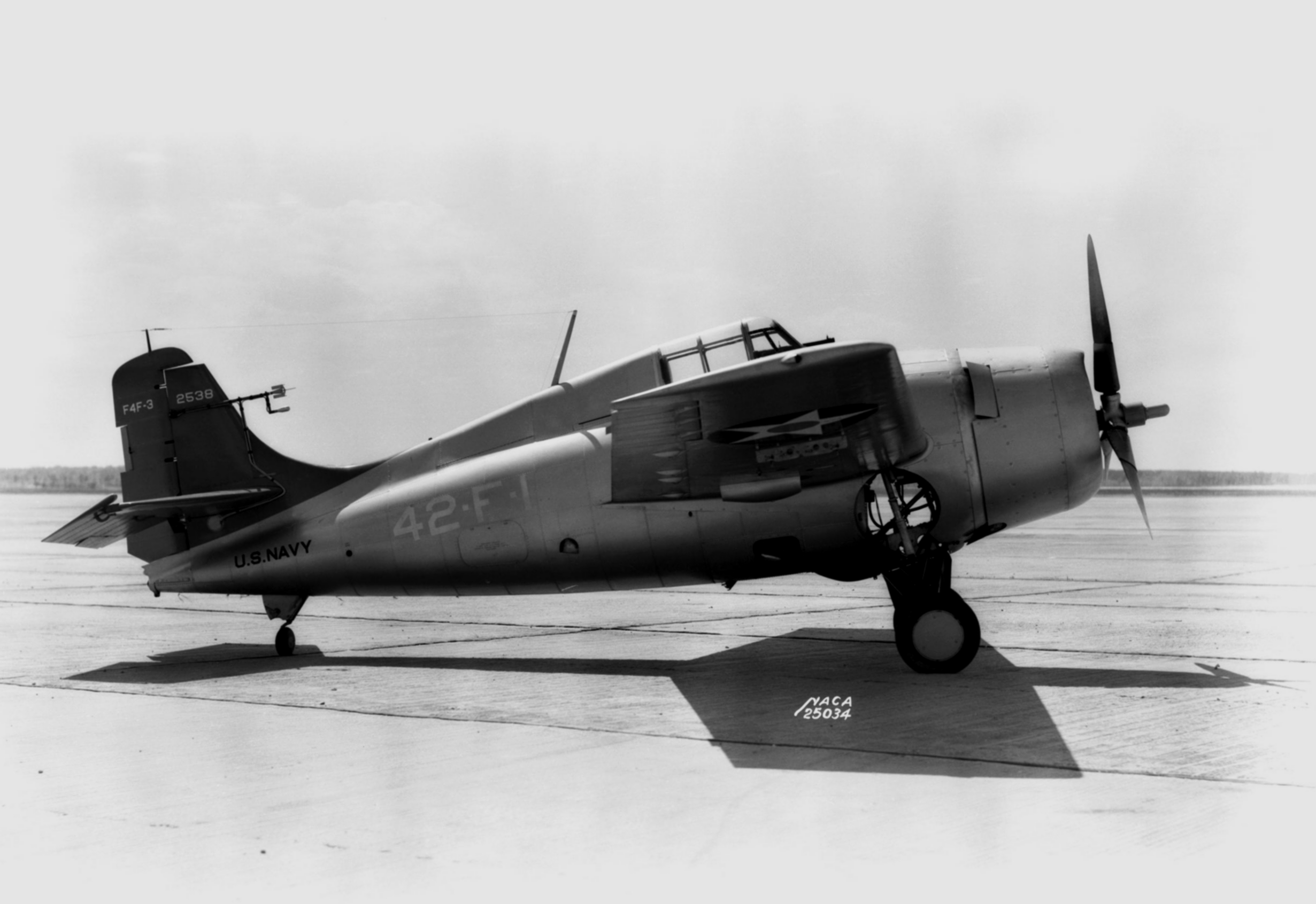 A U.S. Navy Grumman F4F-3 Wildcat (BuNo 2538) from Fighting Squadron VF-42 at the NACA Langley Rsearch Center, in 1941.